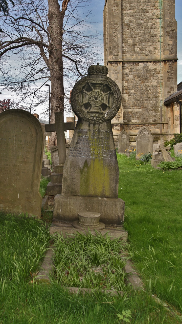 Grave in St Matthew's parish churchyard, Ashford, Middlesex (now Surrey) of James Hawksford (1832–1904), who served in the Rifle Brigade in the Crimean War and later as a Yeoman of the Guard at the Tower of London